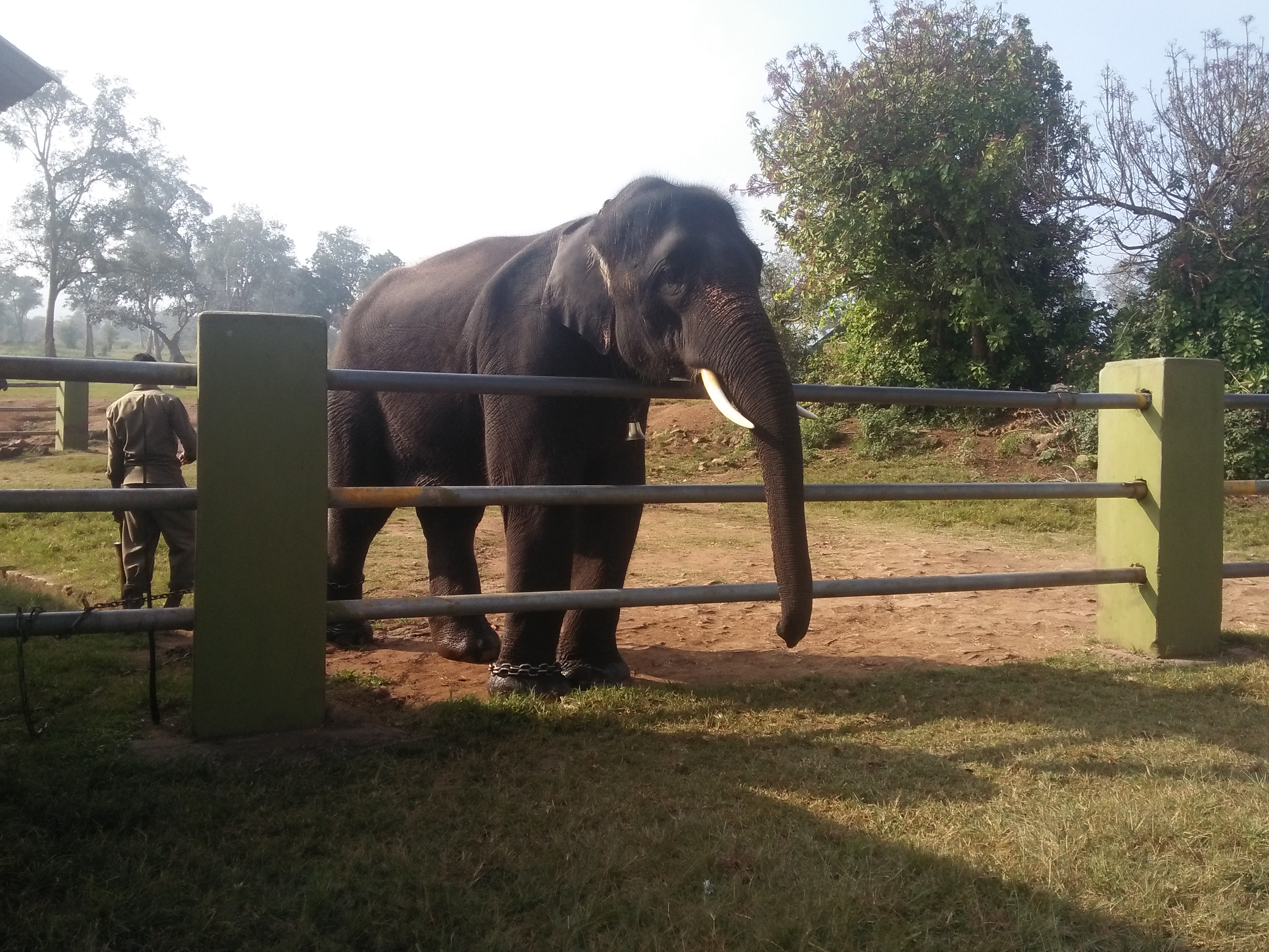 Elephant